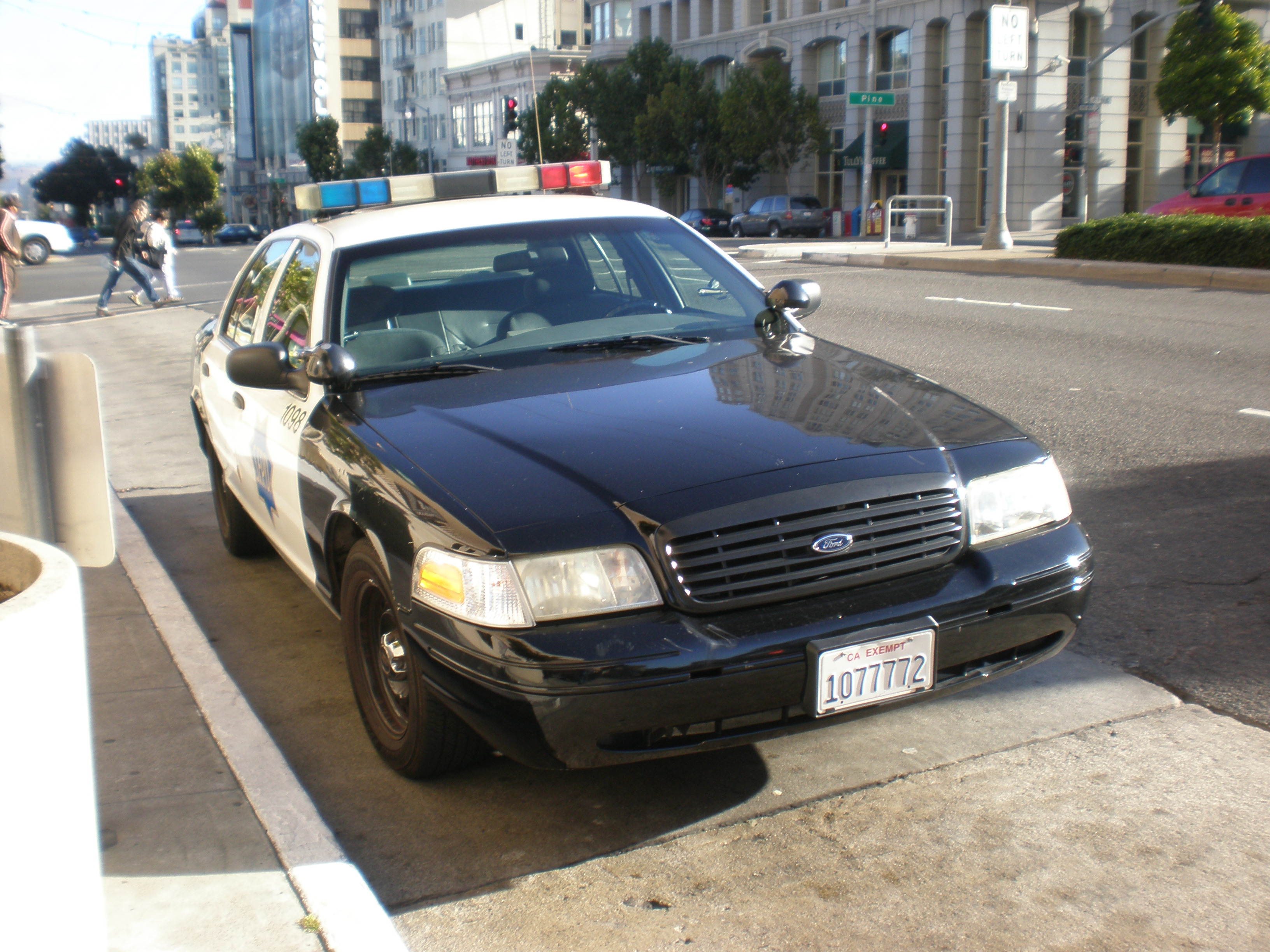 A San Francisco Police Department patrol car on Van Ness Avenue in San Francisco, California.